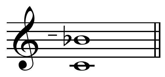 Lesser just minor seventh on C = B♭- (Ben Johnston's notation). 16/9 = 996.09 cents. Limit: 3-limit.